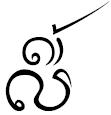 Lanna-Name of District in the North of Thailand